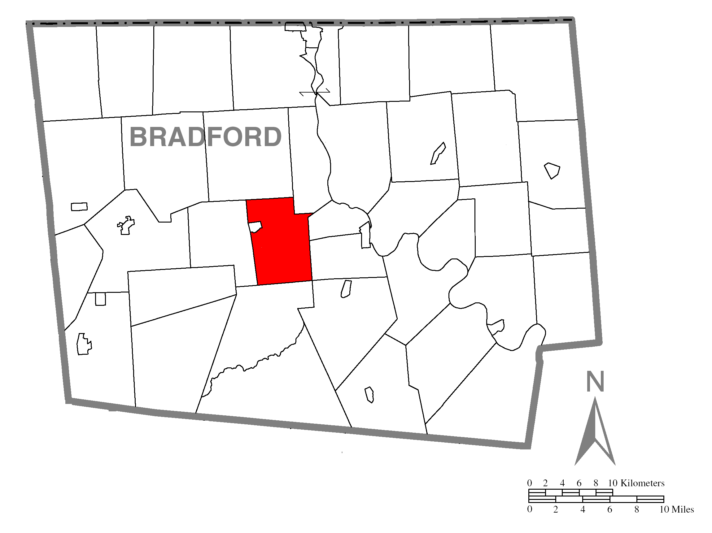 A map of Bradford County showing Burlington Township, Pennsylvania (alternate) highlighted on the map.